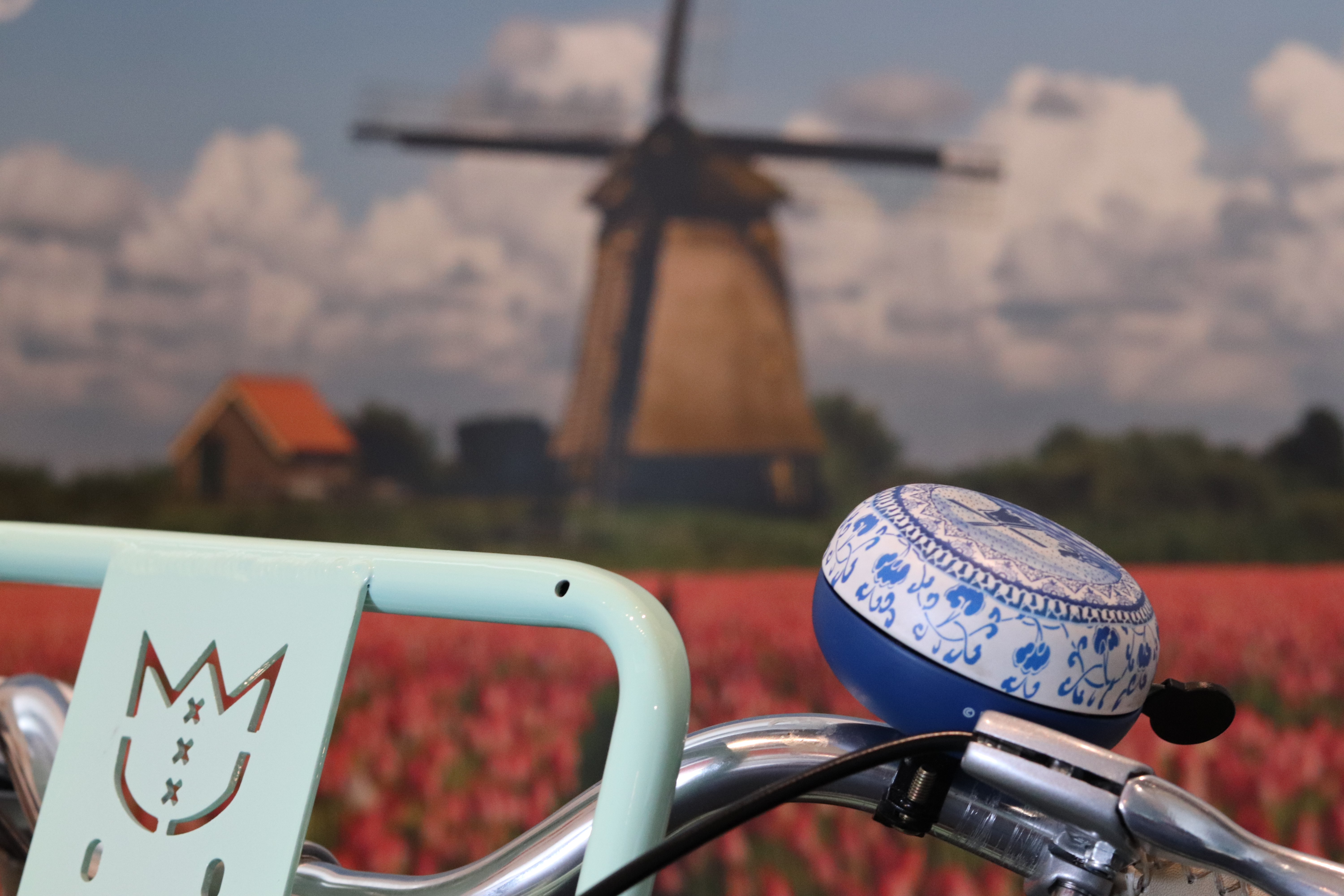 Bicycle handle bars with Fietsbel